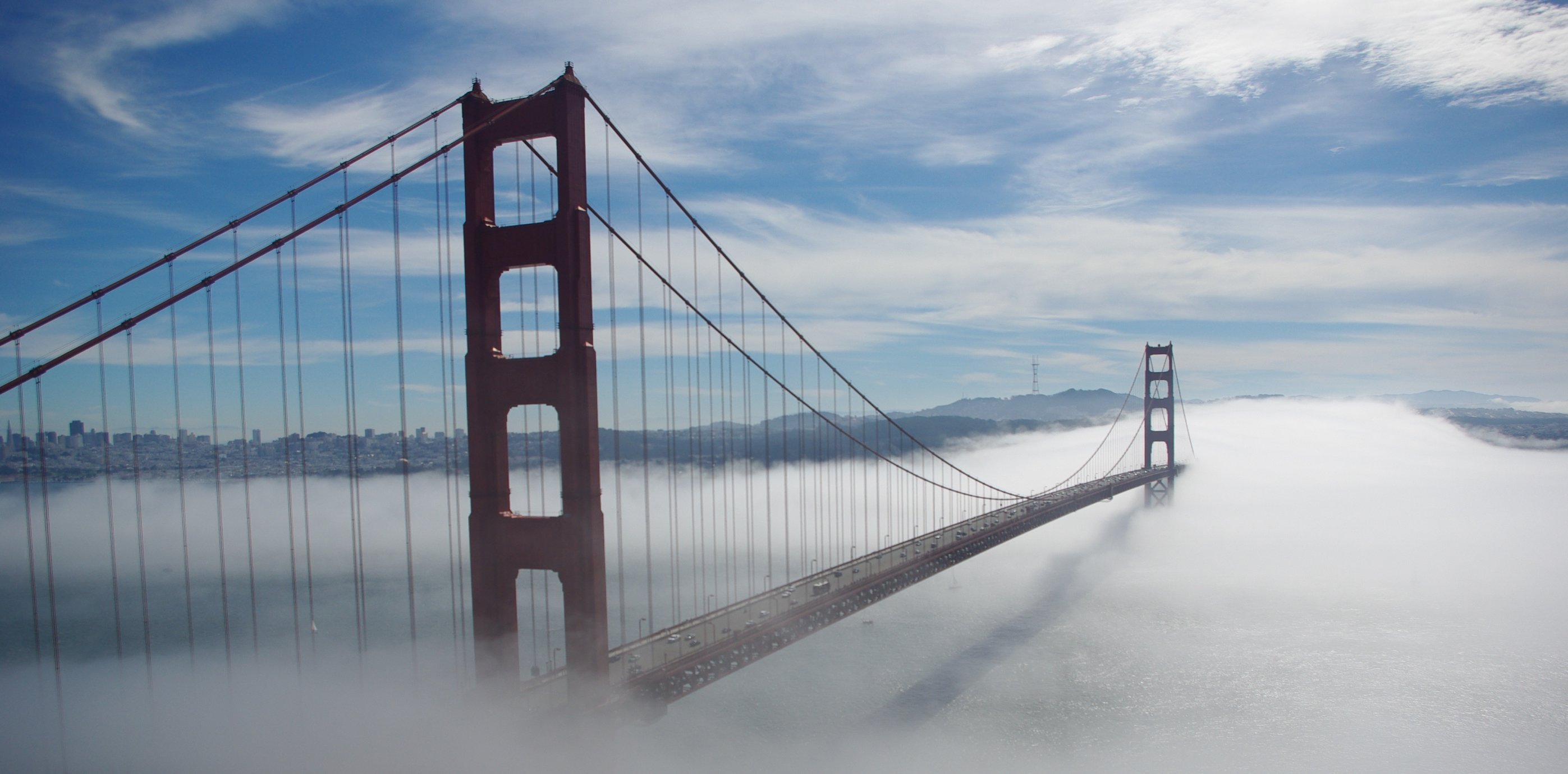 Golden Gate Bridge, San Francisco, California, USA